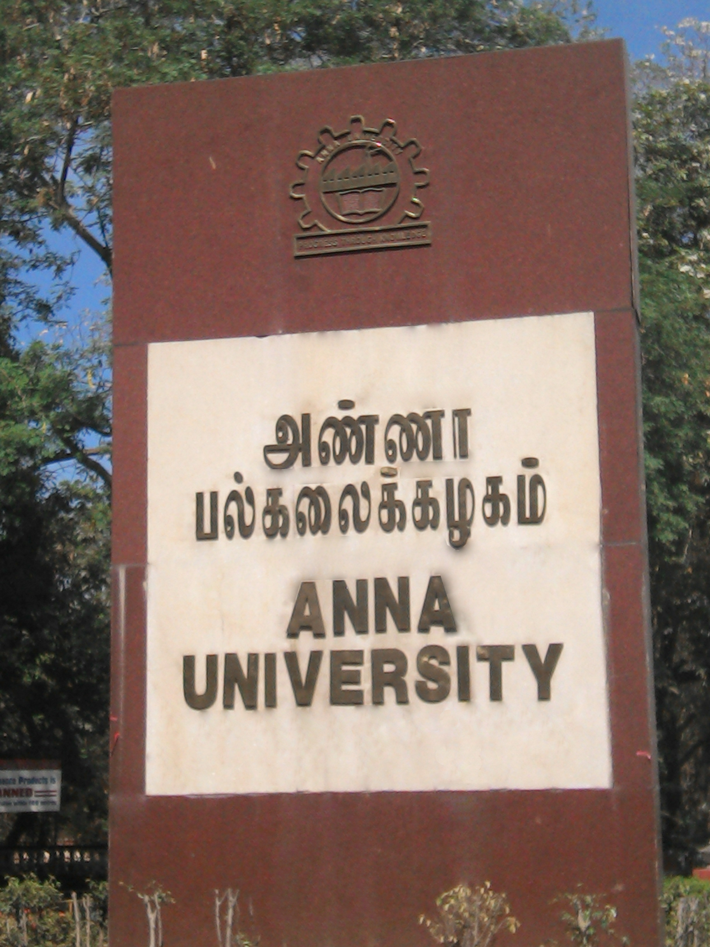 Anna University.